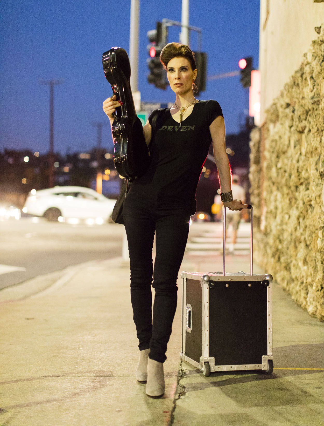 Deven Green